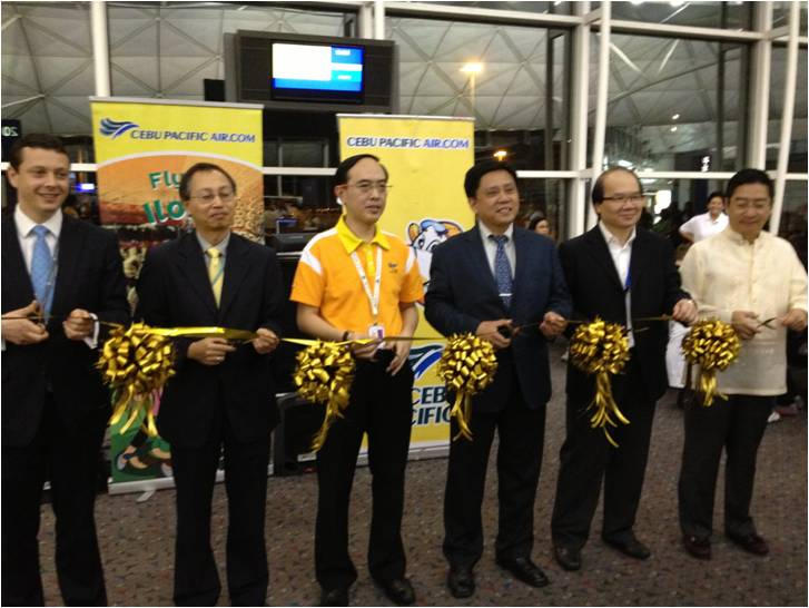 Inauguration of the inaugural flight of Cebu Pacific between Hong Kong International Airport and the Iloilo International Airport in the Philippines.